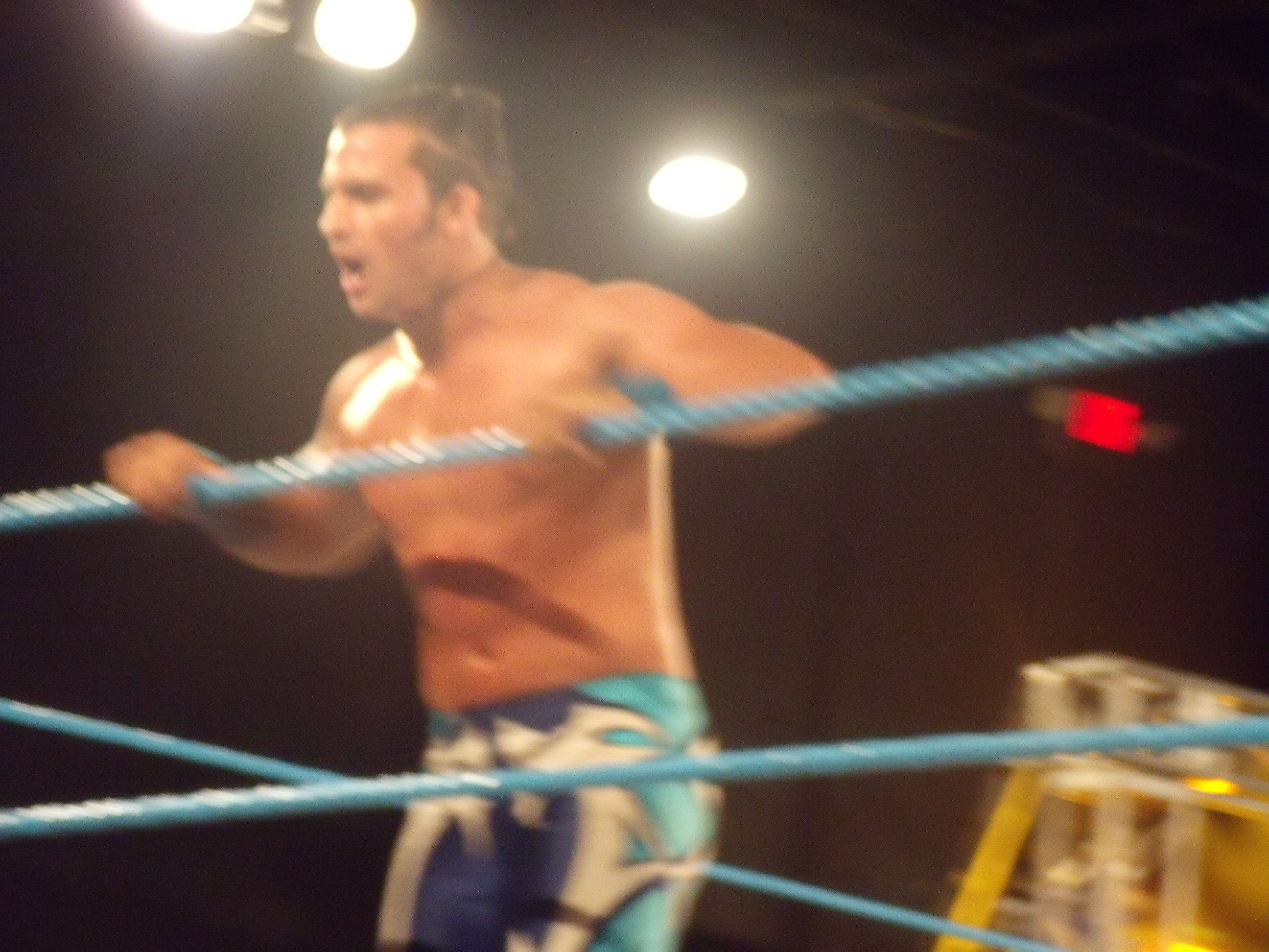 Cage